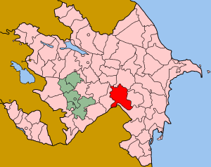 Map of Azerbaijan showing Imishli (İmişli) rayon.